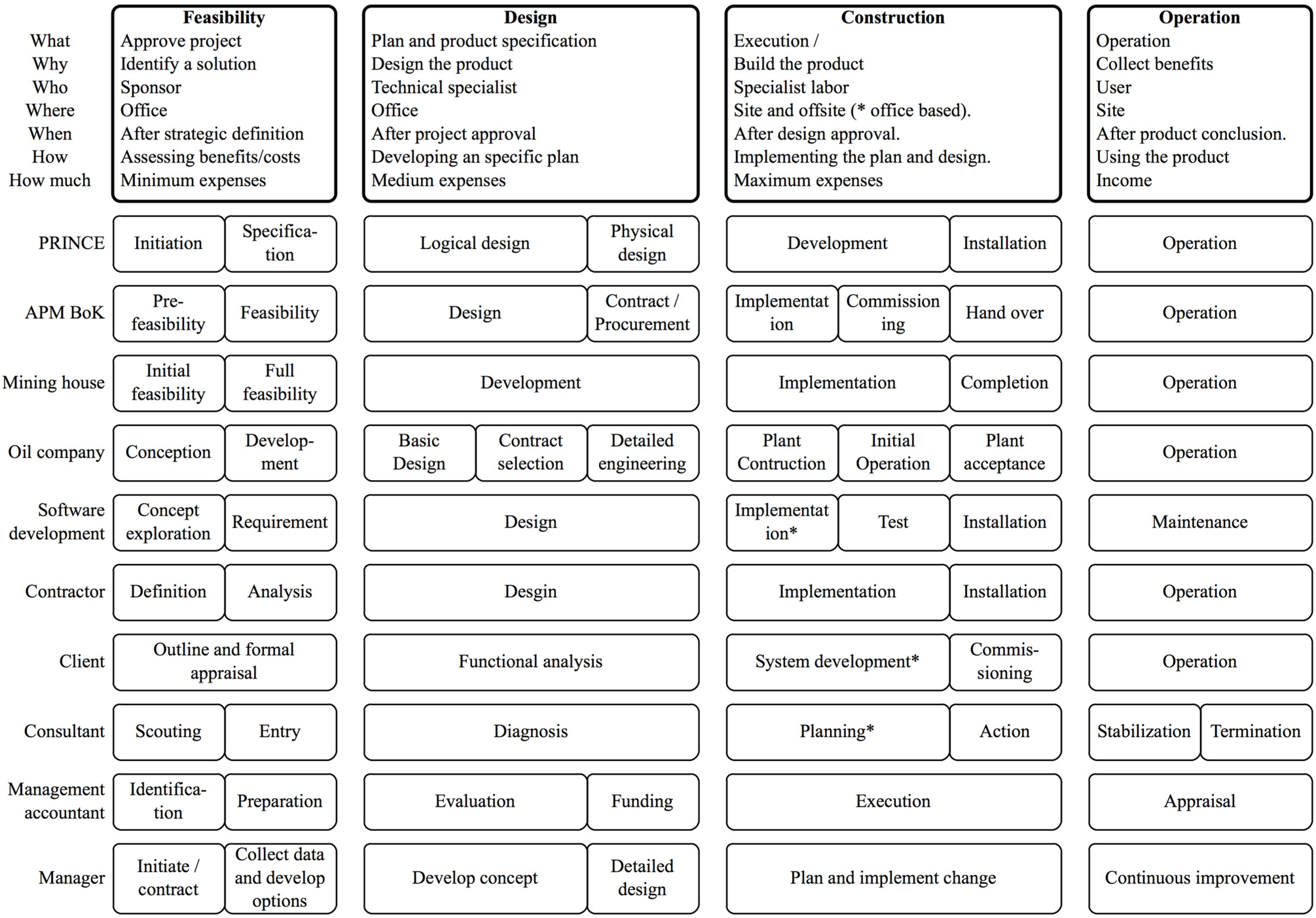 Characteristics of construction project stages of various project management approaches.